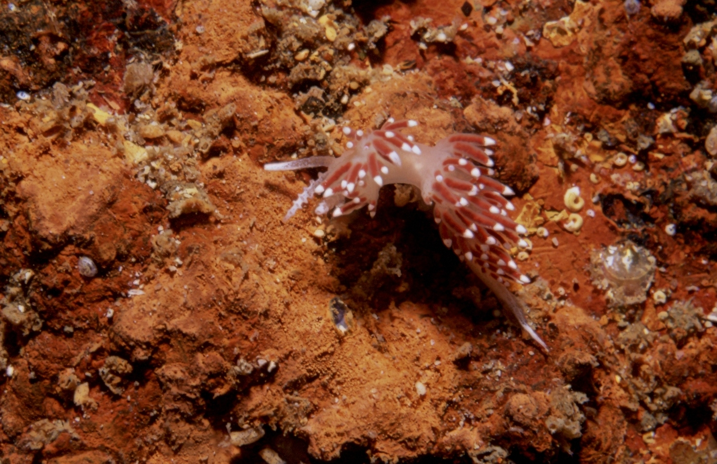 A photograph of the white morph of the purple lady nudibranch Flabellina funeka taken in False Bay, off the Cape Peninsula on the wreck of the Pietermaritzburg in 18m of water using a Nikonos V camera